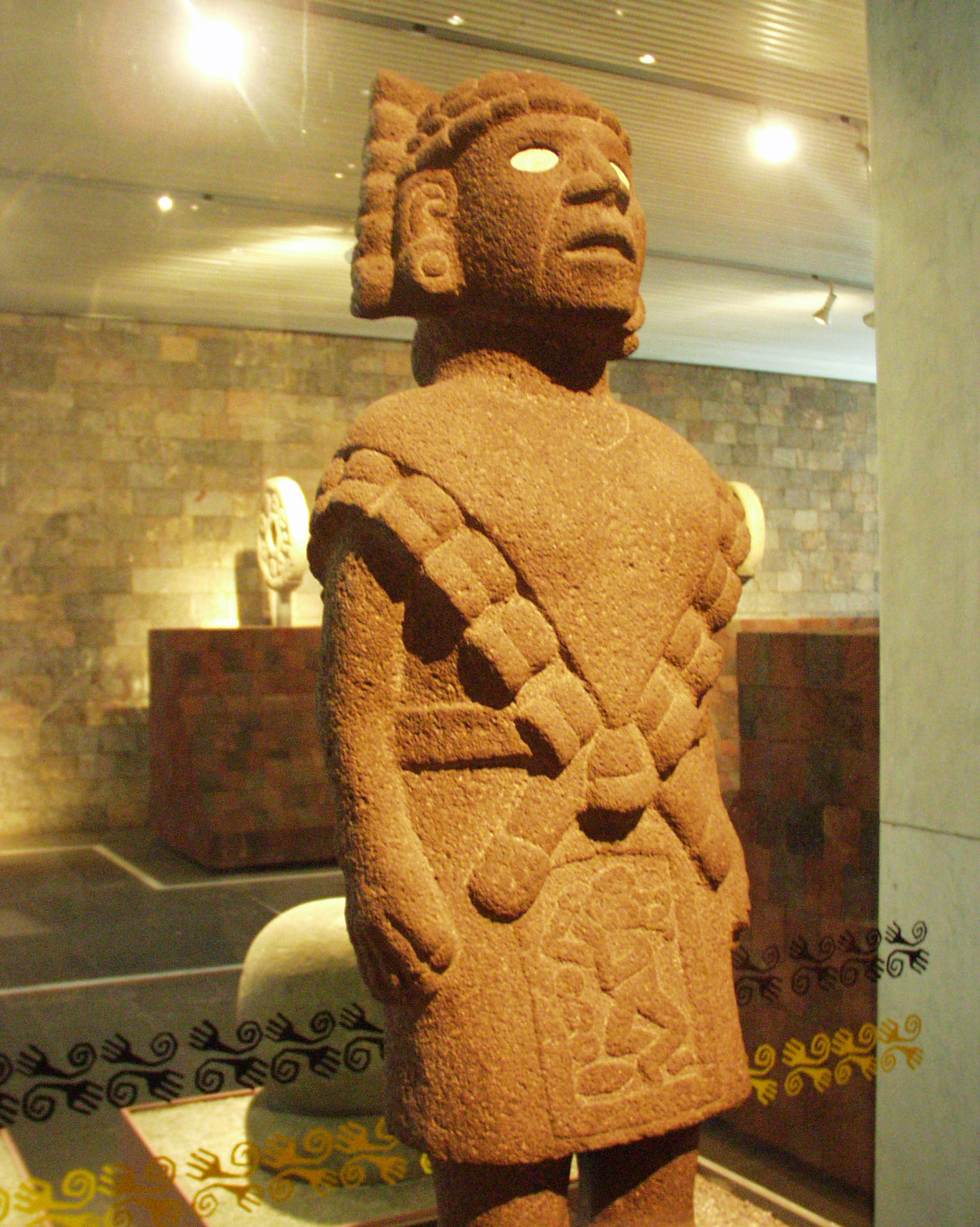 Blind Teteoinnan.